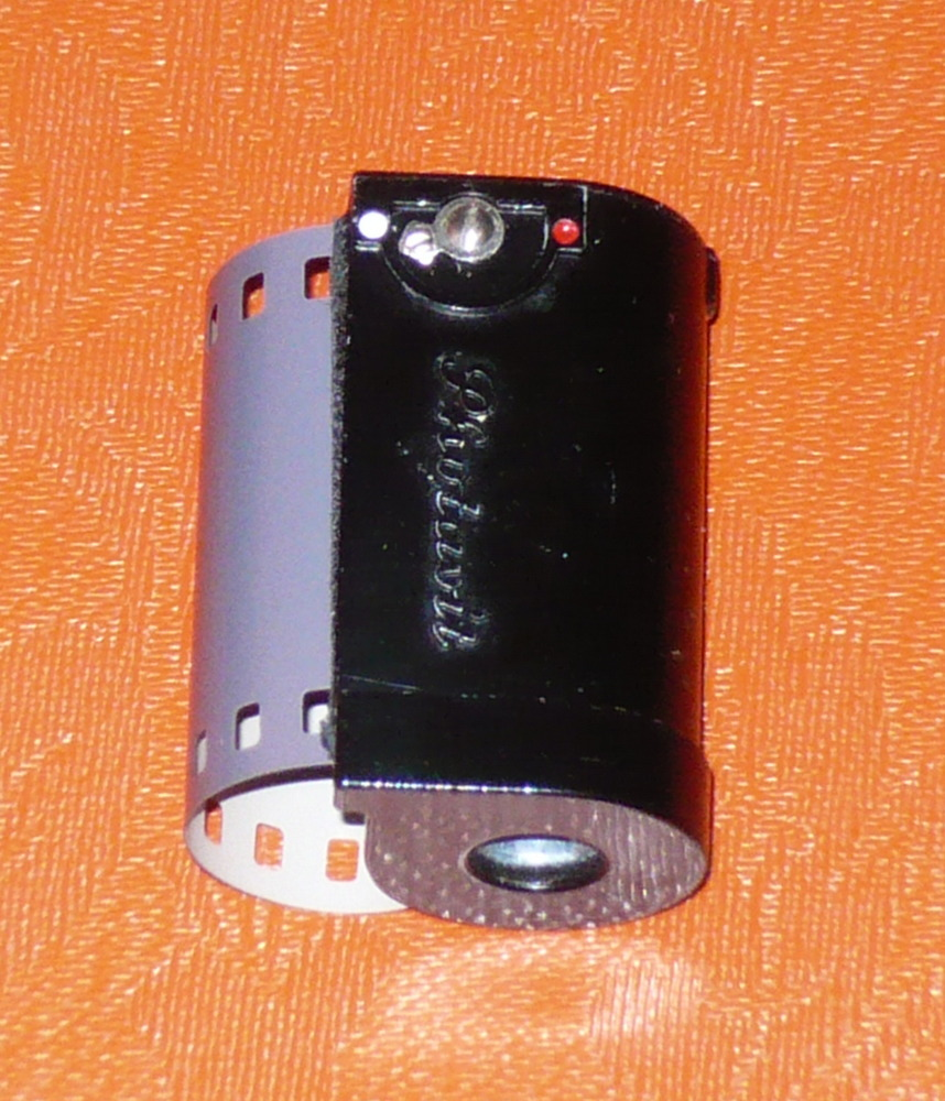 Photavit 35mm cassette